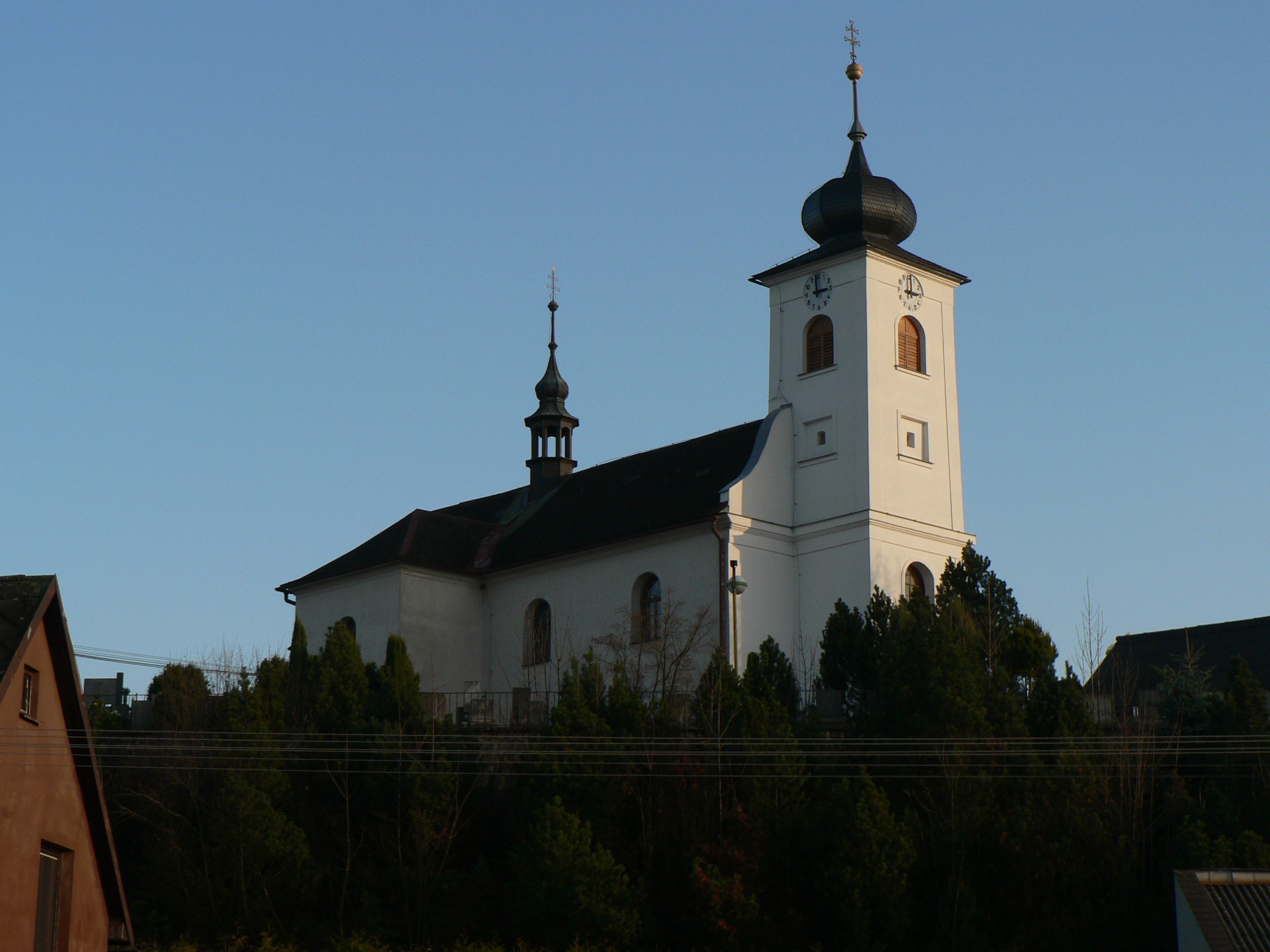 Dlouhomilov, Šumperk District, Czechia. All Saints church.